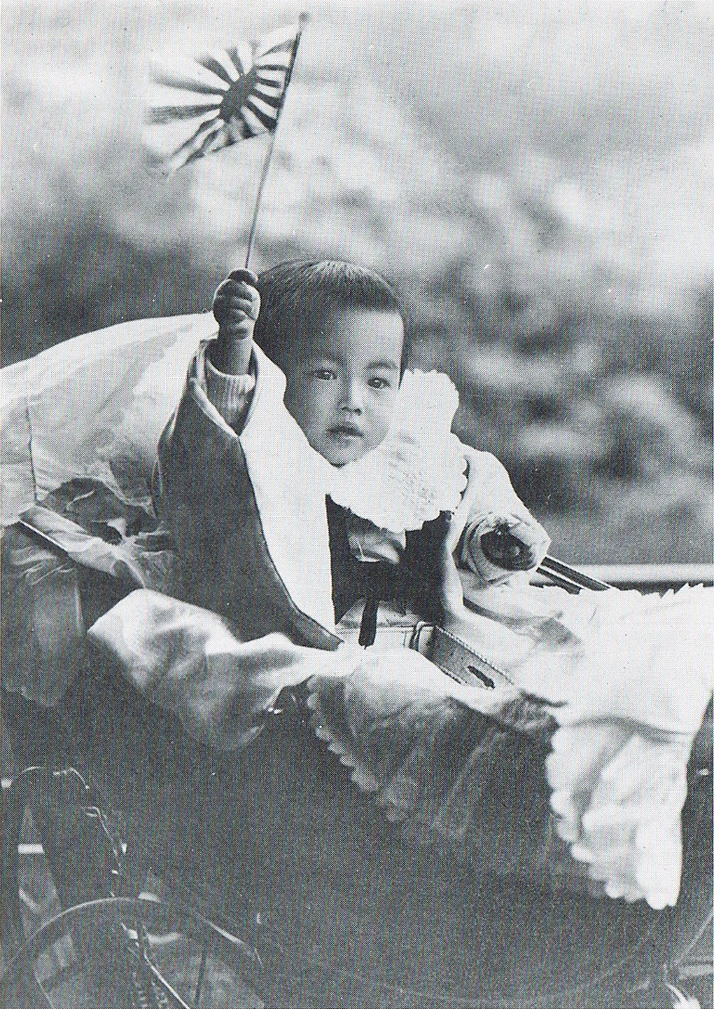 Crown Prince Michinomiya Hirohito / Emperor Shōwa at 1 year old. Emperor Hirohito (Child Emperor Showa) holding a small rising sun flag, 1902 (Meiji 35)